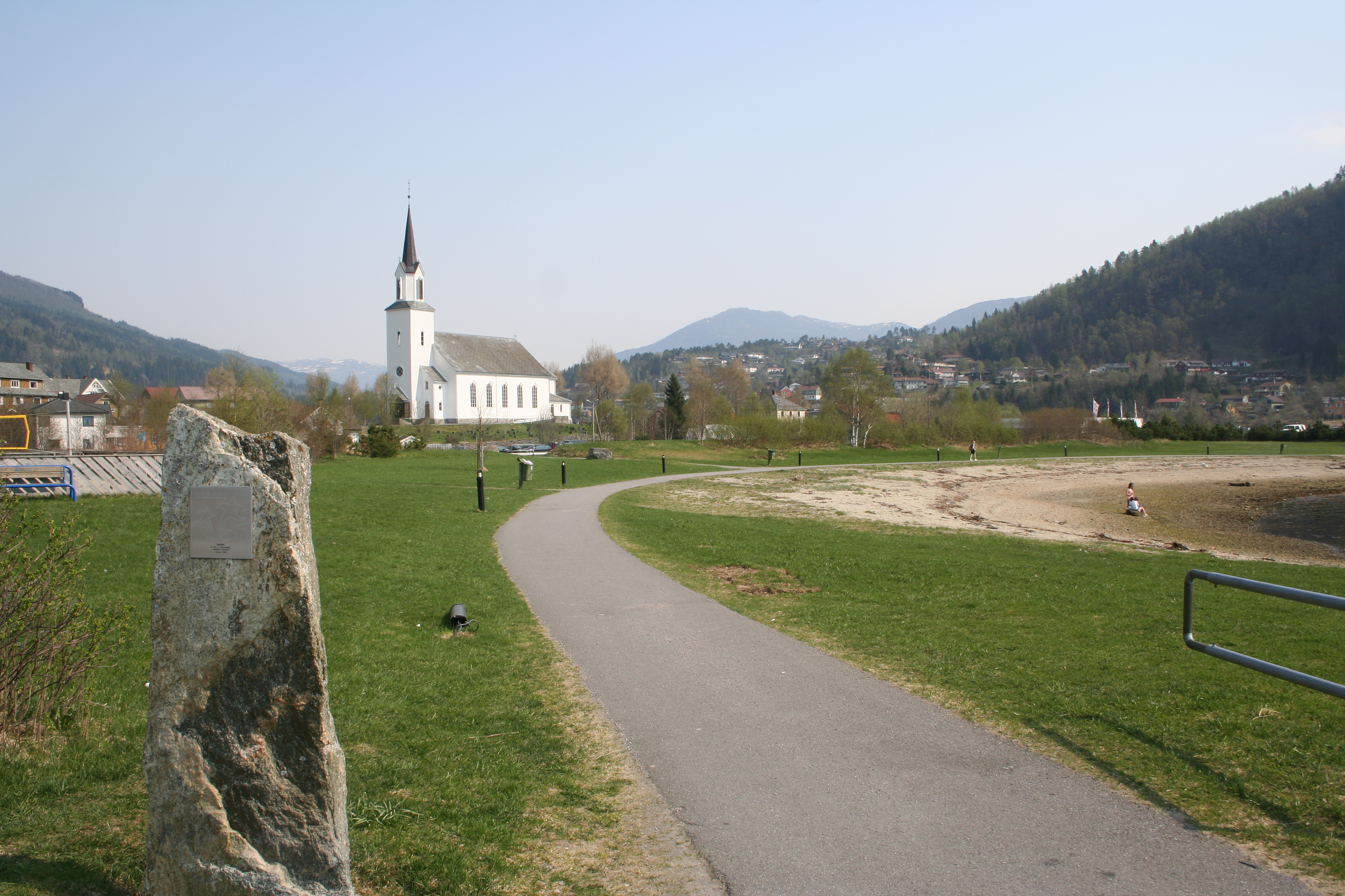 Naustdal, Norway Date: 2006